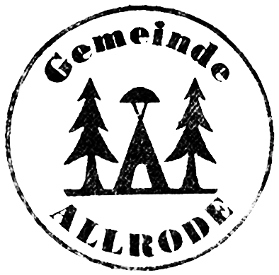 Seal of Allrode, Germany